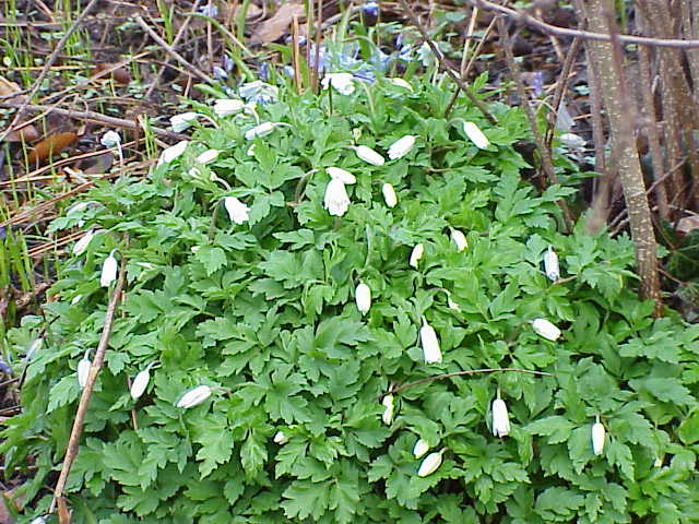 Species: Anemone apennina albiflora Family: Ranunculaceae Image No. 1